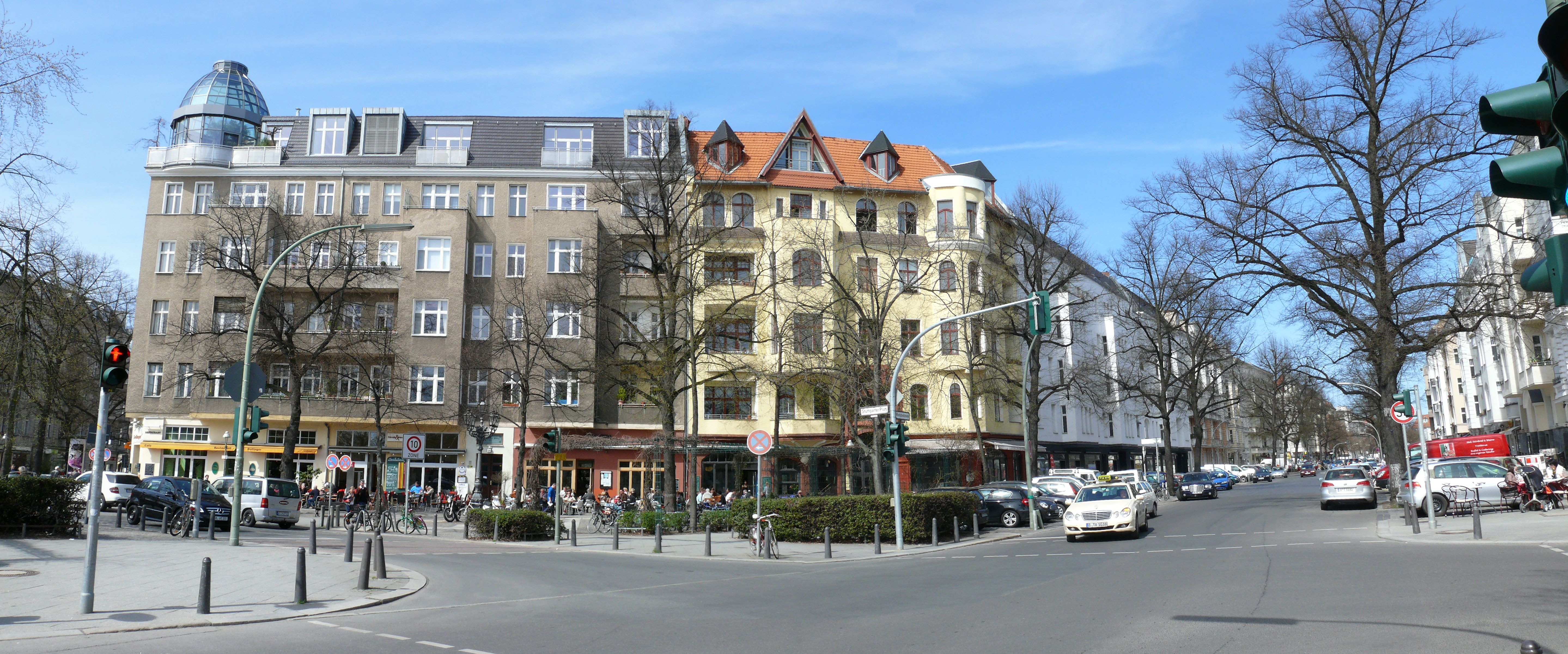 Berlin-Charlottenburg Stuttgarter Platz Panorama